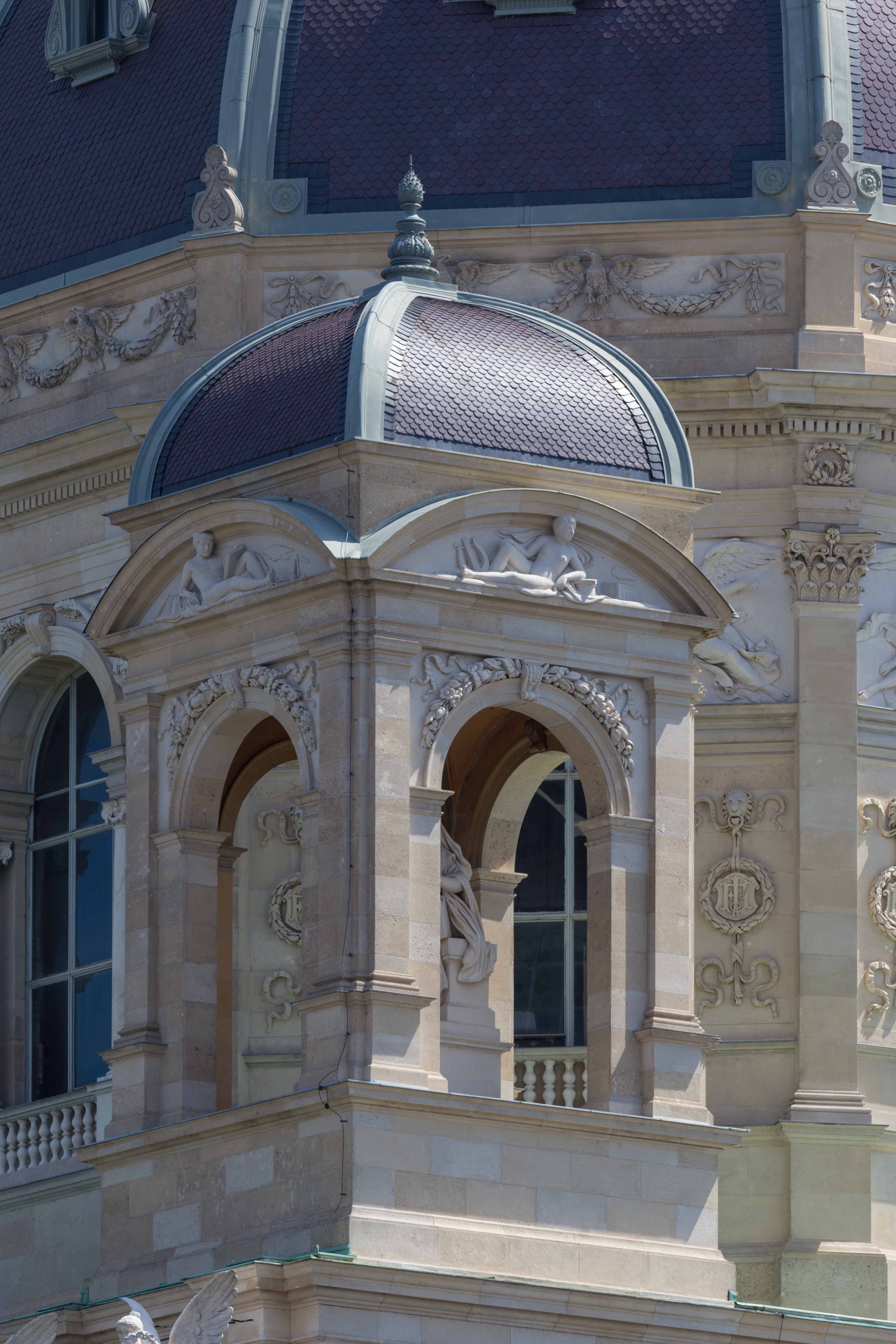 Kunsthistorisches Museum in Vienna, dome The making of this work was supported by Wikimedia Austria. For other files made with the support of Wikimedia Austria, please see the category Supported by Wikimedia Österreich.